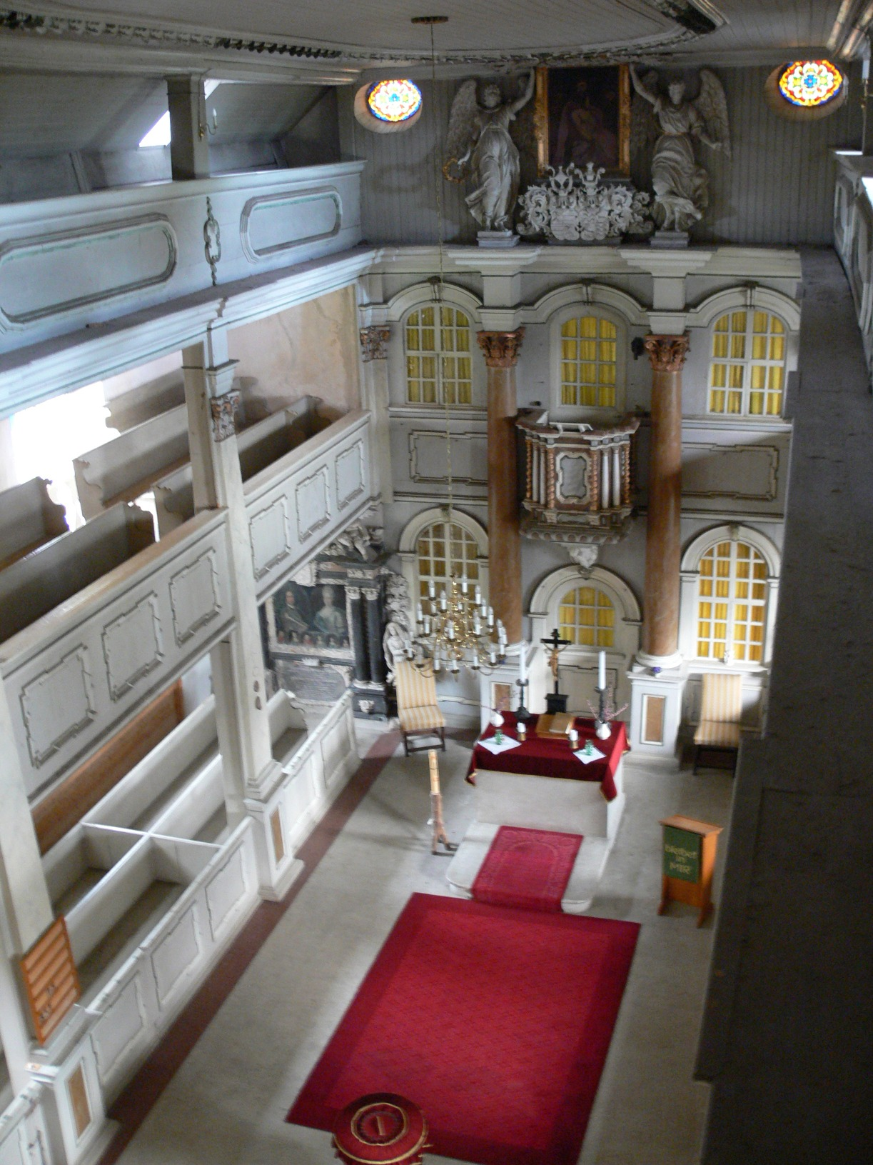 Interior of St. Jakobus church Rottmersleben, Germany